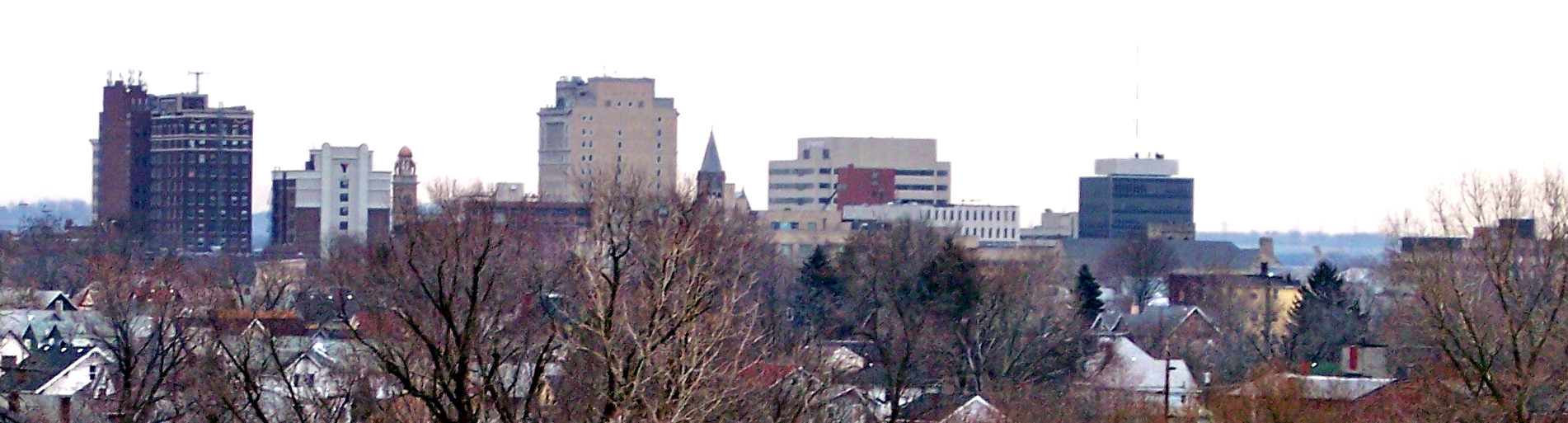 Downtown Canton, Ohio as viewed from the McKinley National Memorial